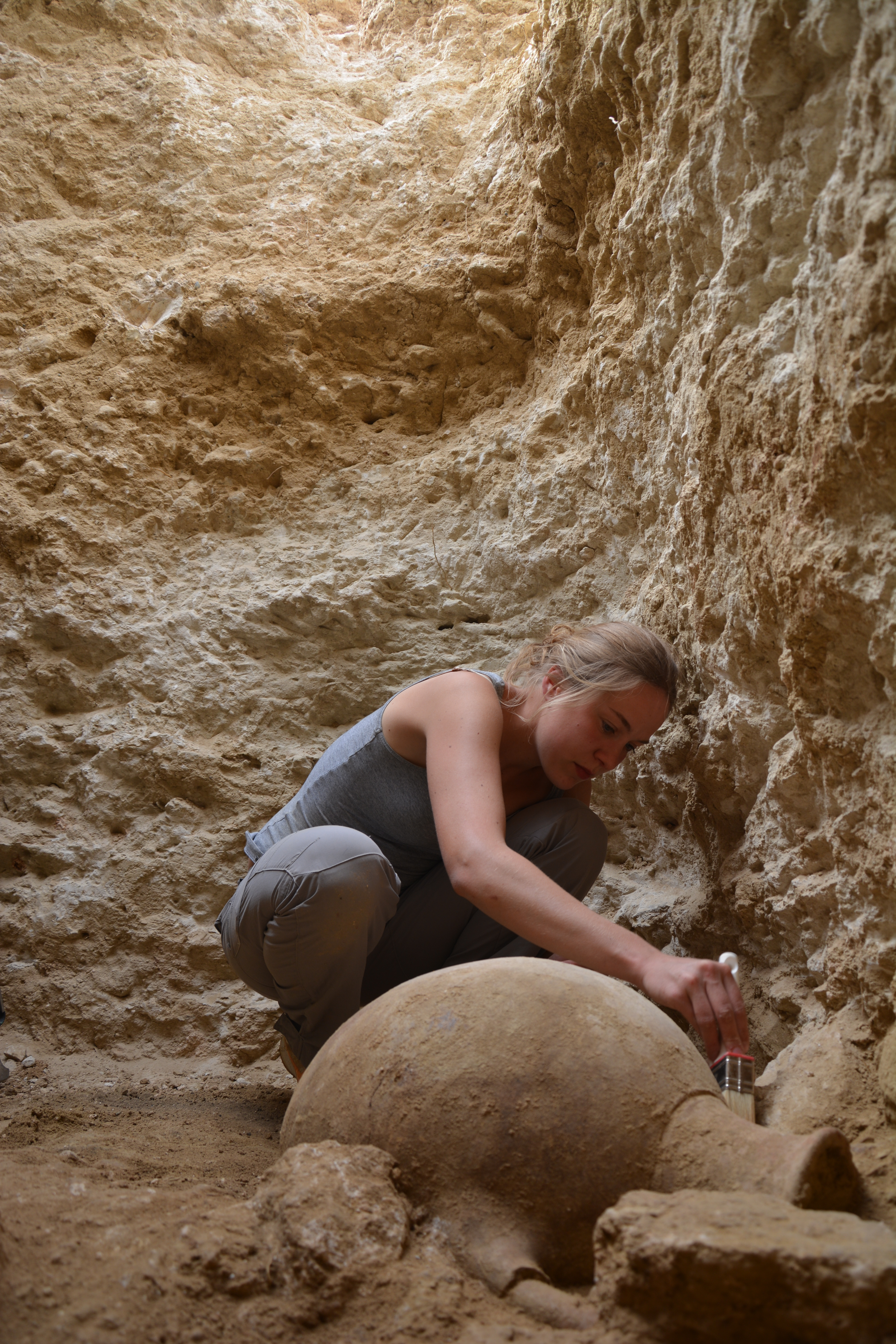 Pyla-Kokkinokremos, Cyprus. Excavation of a 3200 year old settlement - Pithos in a 3.5 m deep underground structure